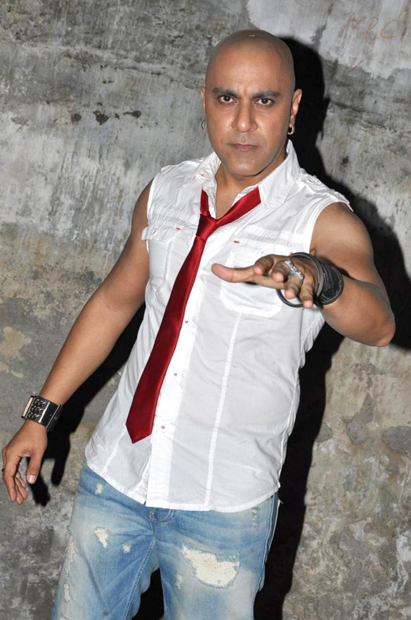 Baba Sehgal shoots for his album 'Mumbai City'